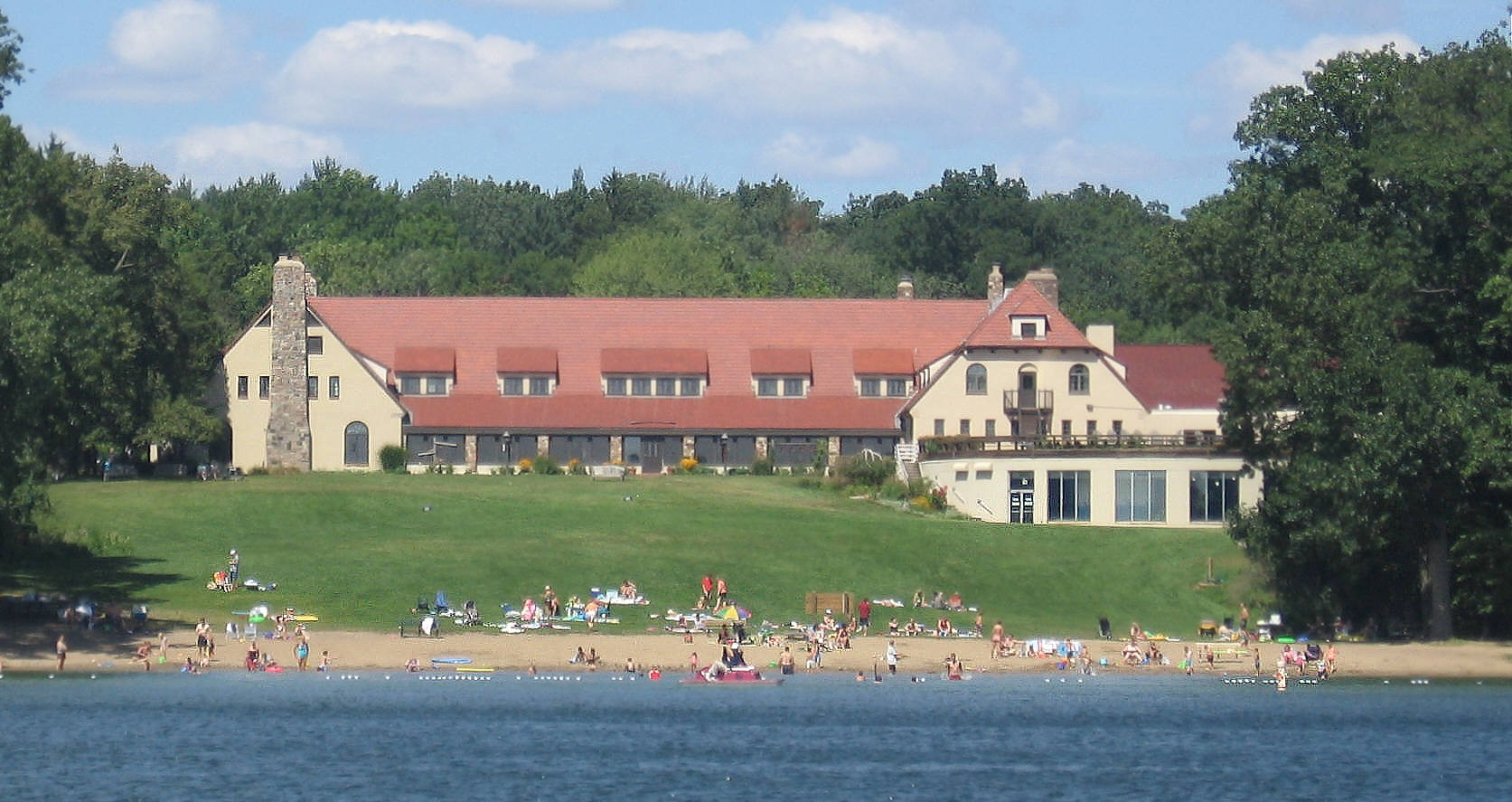 Potawatomi Inn at Pokagon State Park, in Indiana, looking north from Lake James. This photo only shows the original Inn. A new section, completed in the 1990s, can be glimpsed to the right (the east).